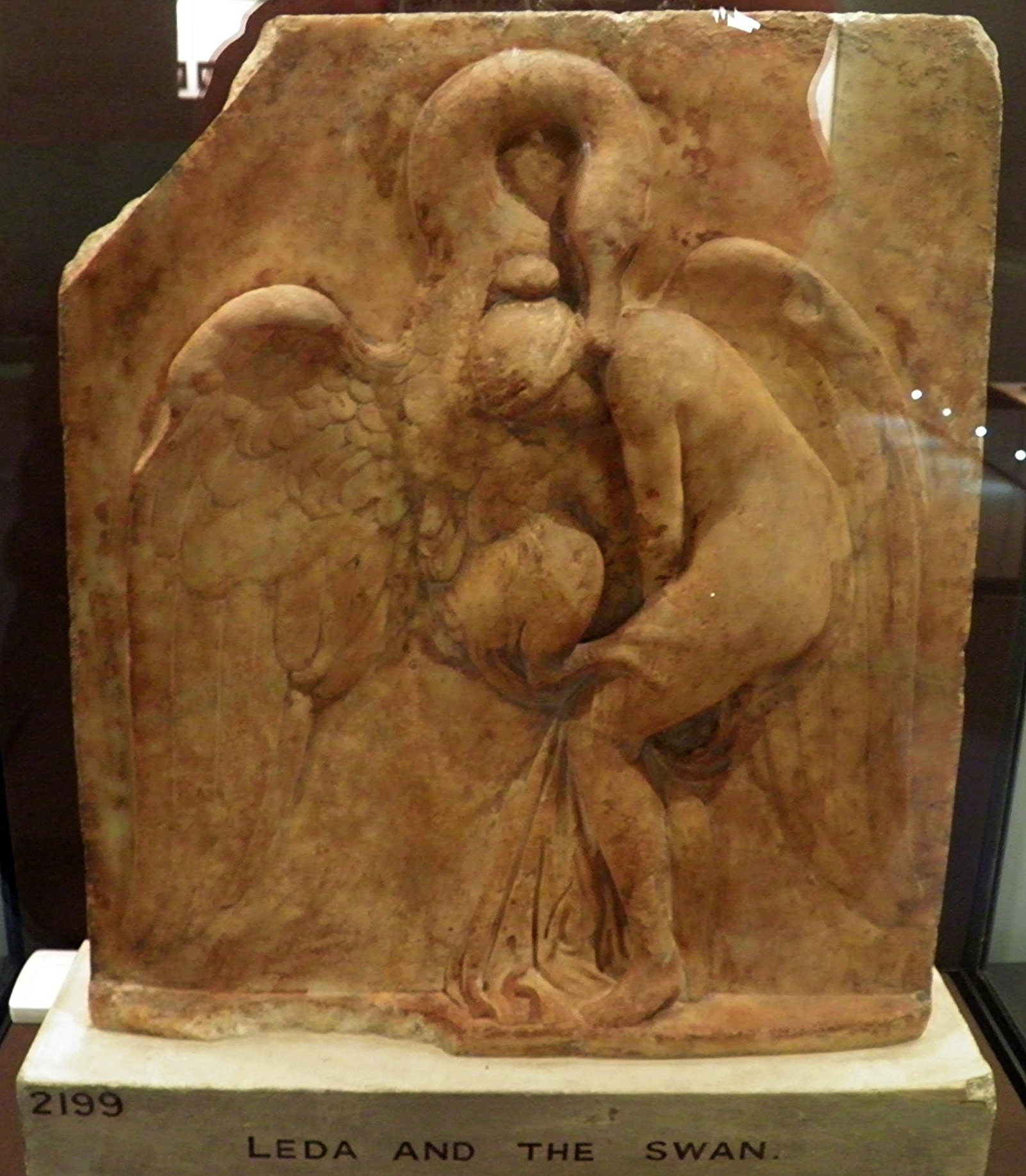 Marble Relief, from Argos, Greece Jupiter (Zeus), as a swan, seduced Leda, who laid two eggs. In one were Castor and Pollux, patrons of Rome, and in the other was Helen of Troy. The swan bites the back of Leda's neck, as real mating swans do. Later versions of the scene, for example the painting by Rubens, shows a frontal, eroticised approach. British Museum